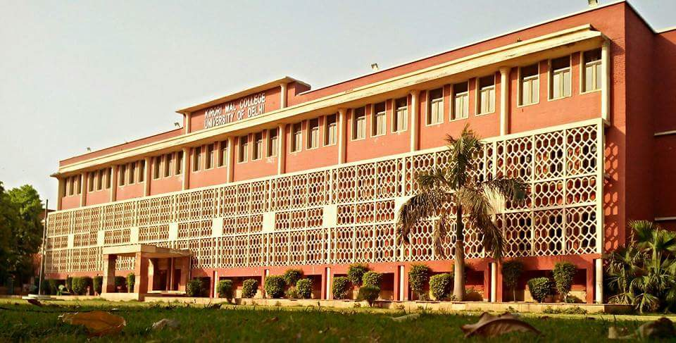 Main building Kirori Mal College